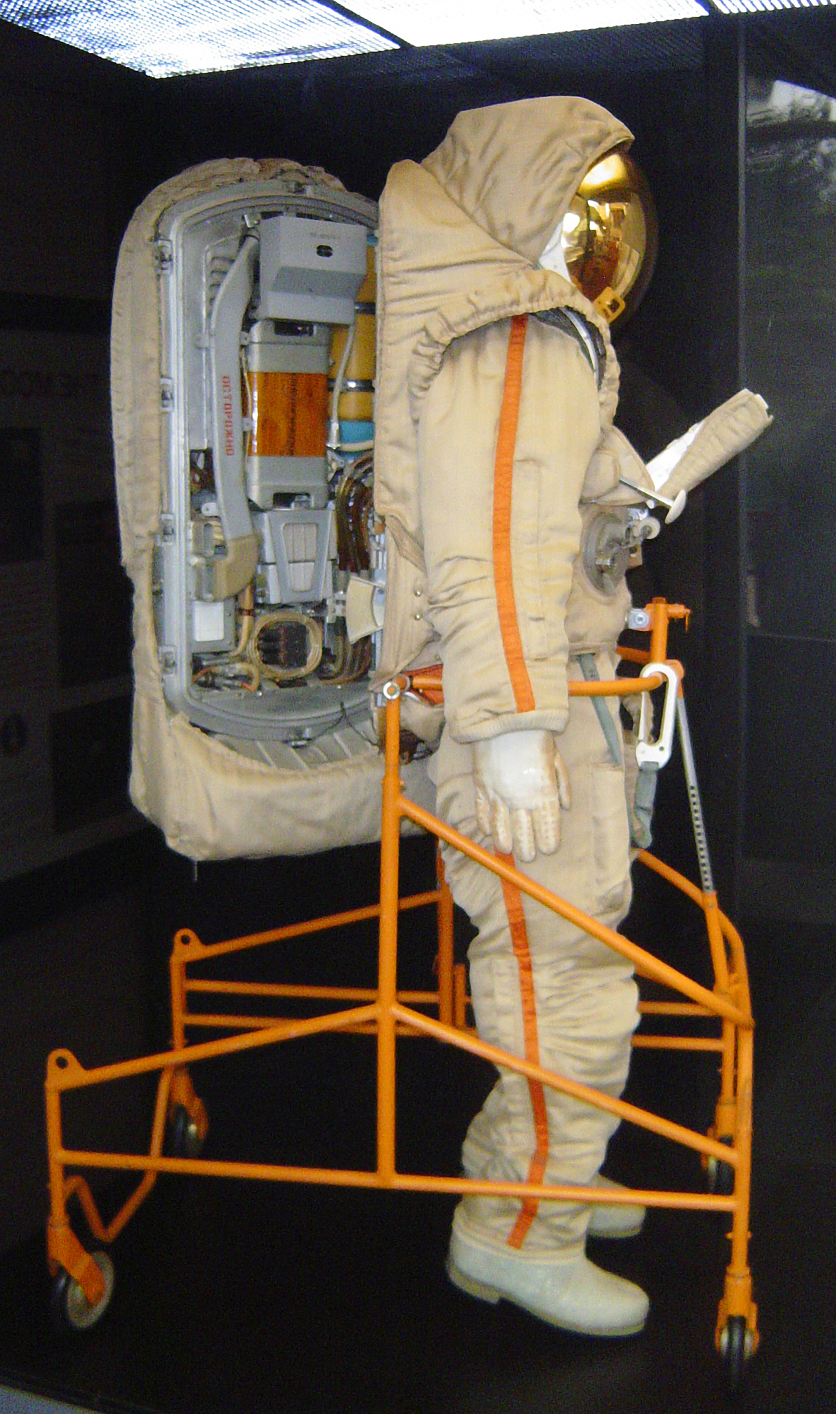 Soviet space suit from the moon program, shot taken from the side in National Air and Space Museum in Washington D.C.